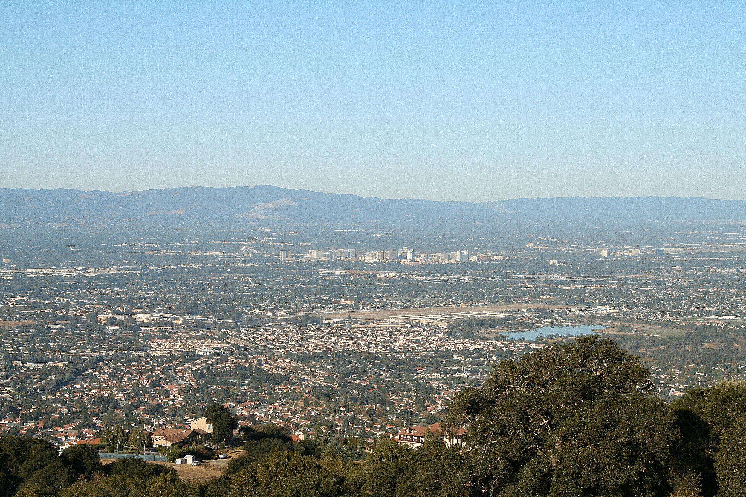 Santa Clara Valley "The Valley of Heart's Delight". Looking west across the valley from Quimby Road, Lake Cunningham Park is in the right foreground, with Reid-Hillview Airport at low center and the high-rise buildings in downtown San Jose beyond. The Santa Clara Valley is a valley just south of the San Francisco Bay in Northern California in the United States. Much of Santa Clara County, California and its county seat San Jose, are in the Santa Clara Valley. The valley was originally known as the Valley of Heart’s Delight for the miles and miles of orchards. Once primarily agricultural because of its highly fertile soil, it is now largely urbanized, although its far southern reaches south of Gilroy remain rural. Silicon Valley is roughly coterminous with the Santa Clara Valley, although since the former is as much a state of mind as an actual location, people often refer to parts of the San Francisco Peninsula as being part of Silicon Valley as well. Locally, the Santa Clara Valley is also referred to as the "South Bay." However, the Santa Clara Valley American Viticultural Area remains important. The northern end of the Santa Clara Valley is at the southern tip of the San Francisco Bay, and the southern end is in the vicinity of Gilroy. The valley is bounded by the Santa Cruz Mountains on the southwest and by the Diablo Range on the northeast. It is about 30 miles (50 km) long and about 15 miles (20 km) wide. The valley's largest city, by an 86.7% margin, is San Jose. Taken with Canon XT (350D)